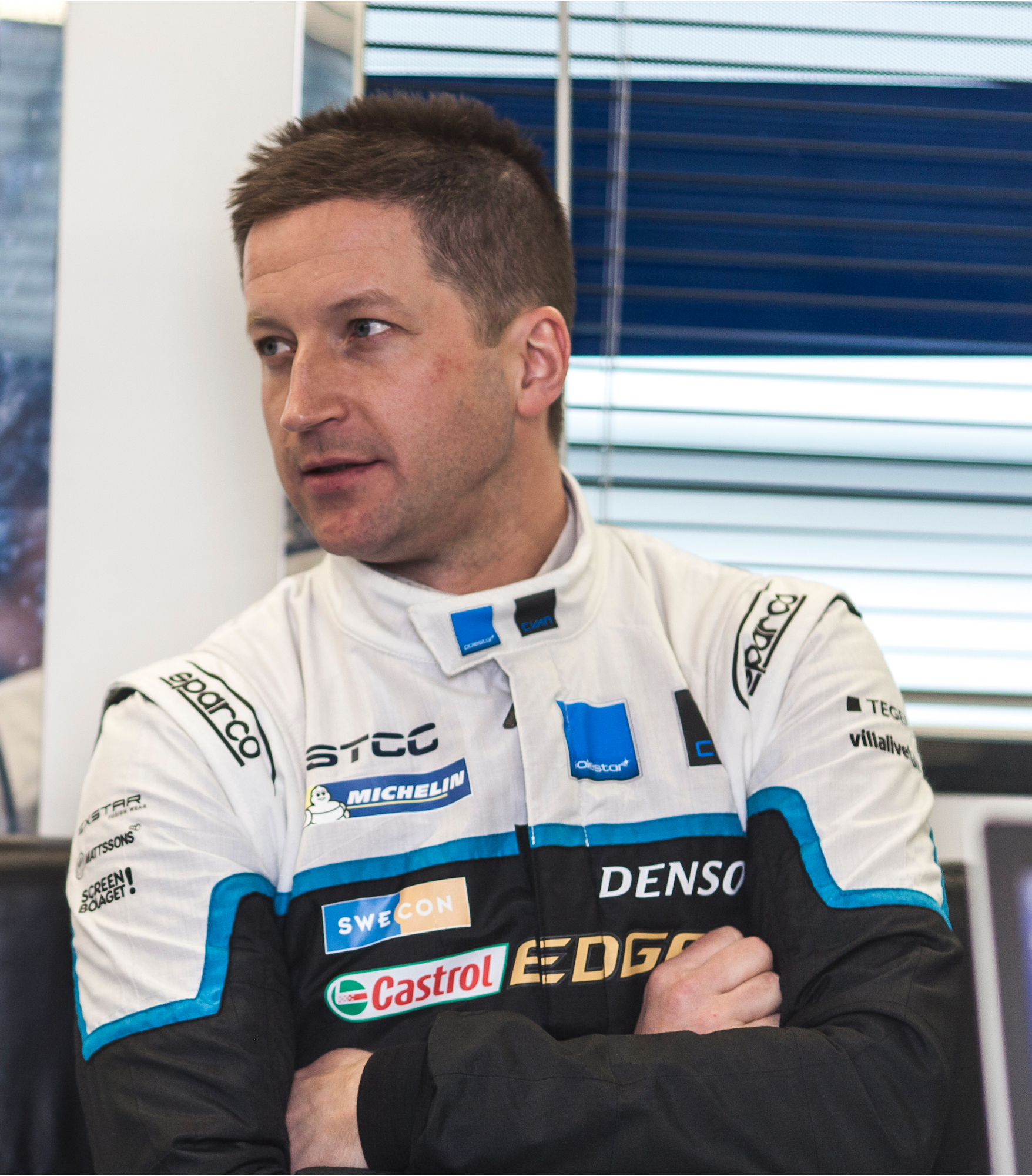 Swedish racing driver Robert Dahlgren at the 2016 STCC round in Skövde, Sweden.